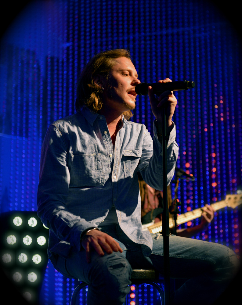 Jonne Aaron Tour / Helsinki MTV3